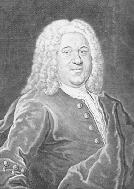 Johann Florenz Rivinus (1681-1755) Jurist from Germany